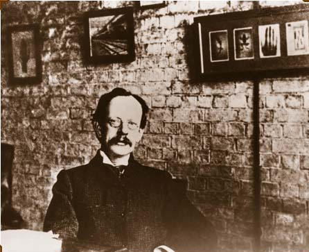 J J Tjompson in his laboratory